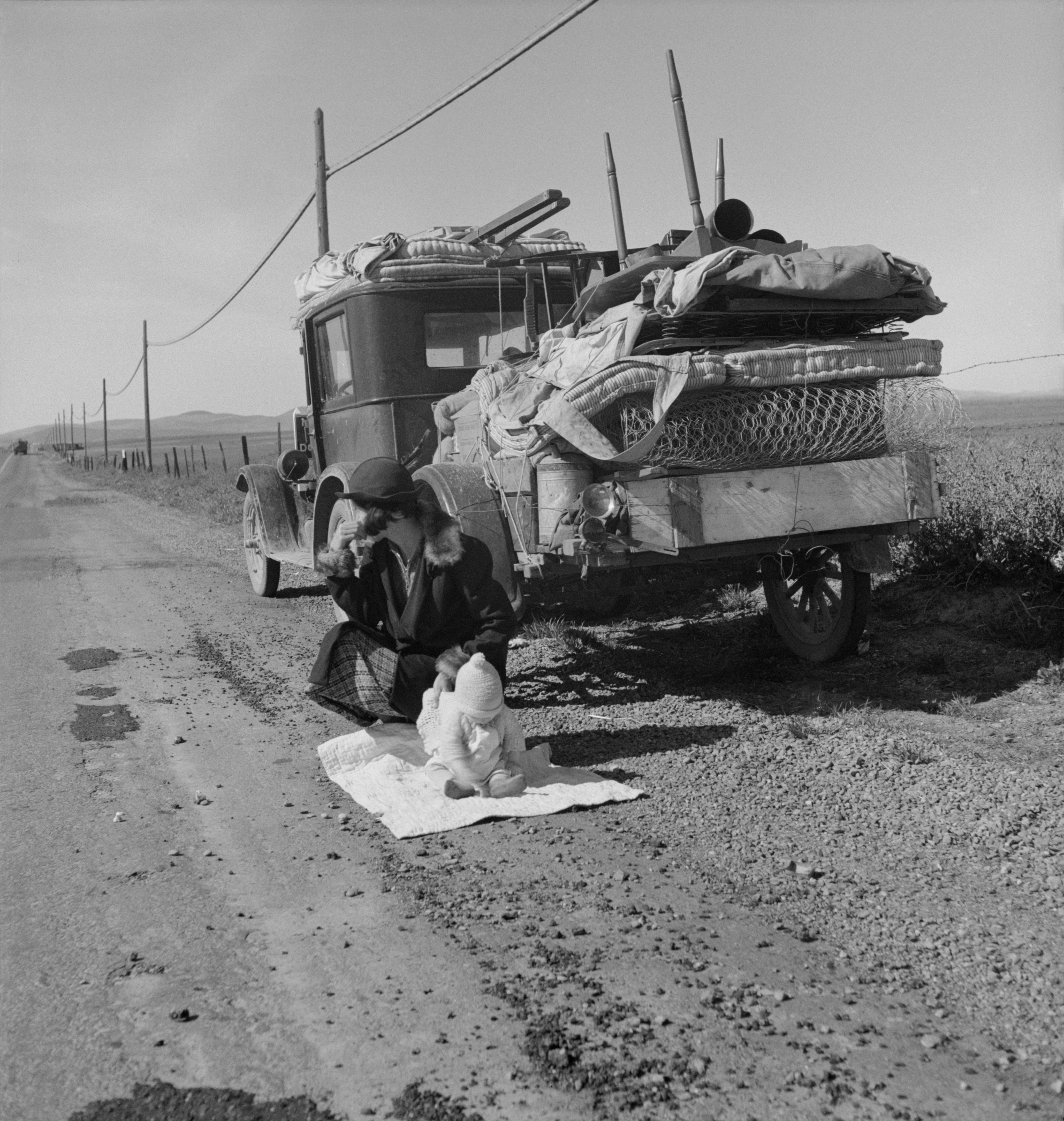 Tracy (vicinity), California. Missouri family of five who are seven months from the drought area on U.S. Highway 99. "Broke, baby sick, and car trouble!" (LOC description) N.B. The sign just visible in front of the truck confirms the other version on the LoC site is correct, not the mirror image version seen in the original scan this is based on.